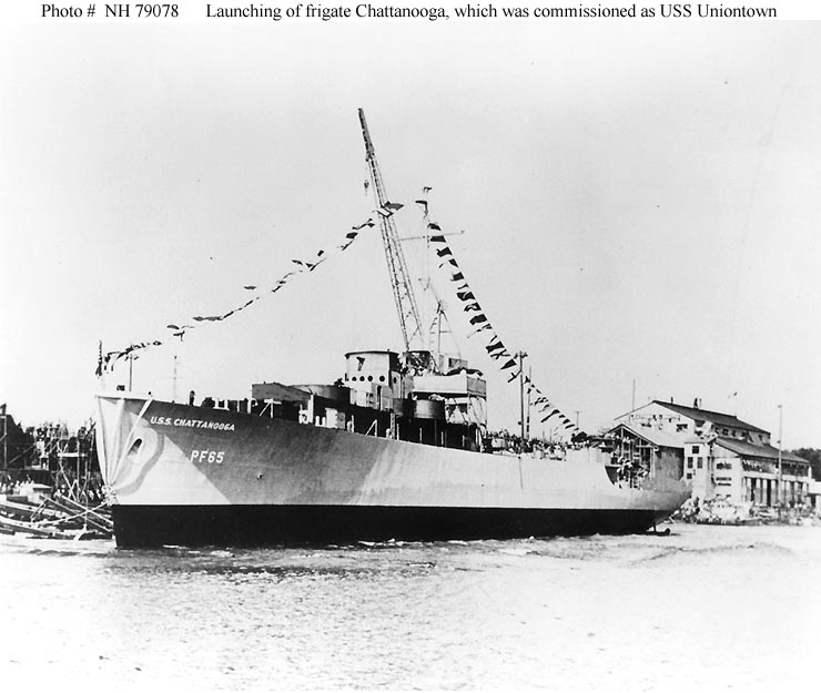 nited States Navy patrol frigate USS Chattanooga (PF-65), later renamed USS Uniontonw (PF-65) being launched at the Leathem B. Smith Shipbuilding Company shipyard at Sturgeon Bay, Wisconsin.